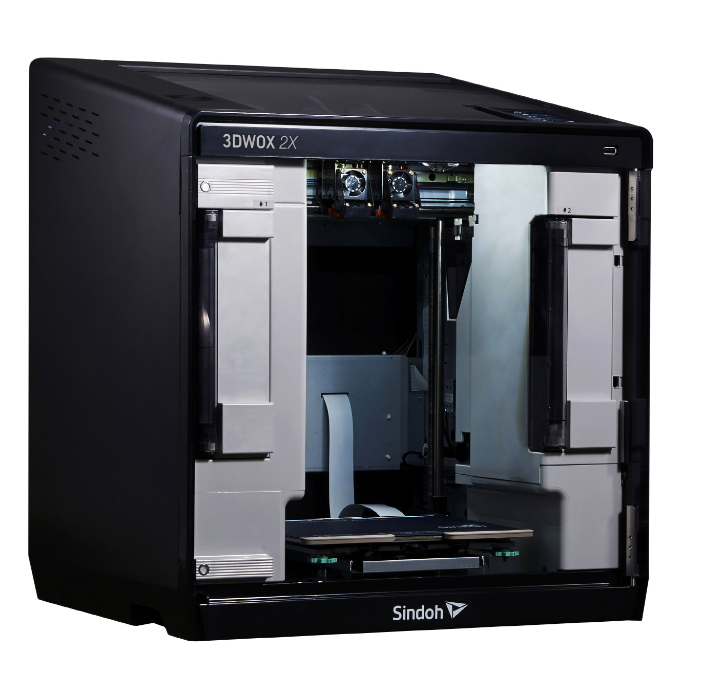 The Sindoh 3DWOX 2X is a new, larger machine that’s based on their highly successful 3DWOX series, which we covered in depth some time ago. Sindoh is a very mature technology company from Korea that has a history of producing photocopiers. They’ve taken their skills in producing easy-to-use photocopiers to the 3D printer market and deployed products that are indeed very straightforward.